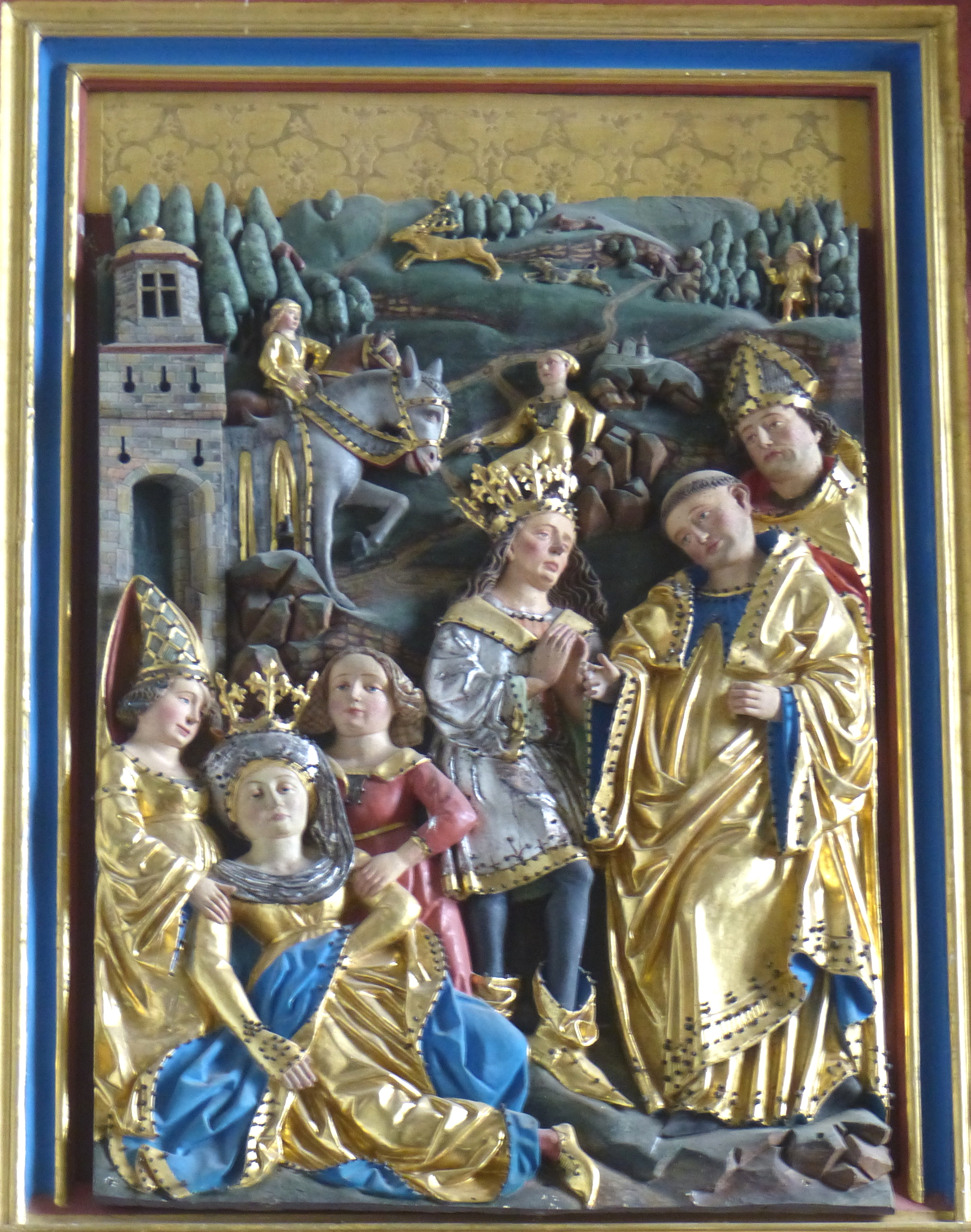 Pesenbach ( Upper Austria ). Saint Leonard church - High altar ( 1495 ): Left wing - Saint Leonard saves the pregnant wife of Merovingian king Theudebert I by his blessing.